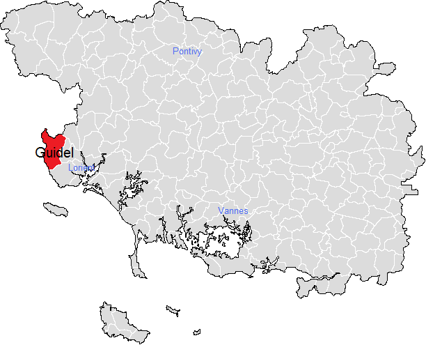 placement Guidel in departement Morbihan